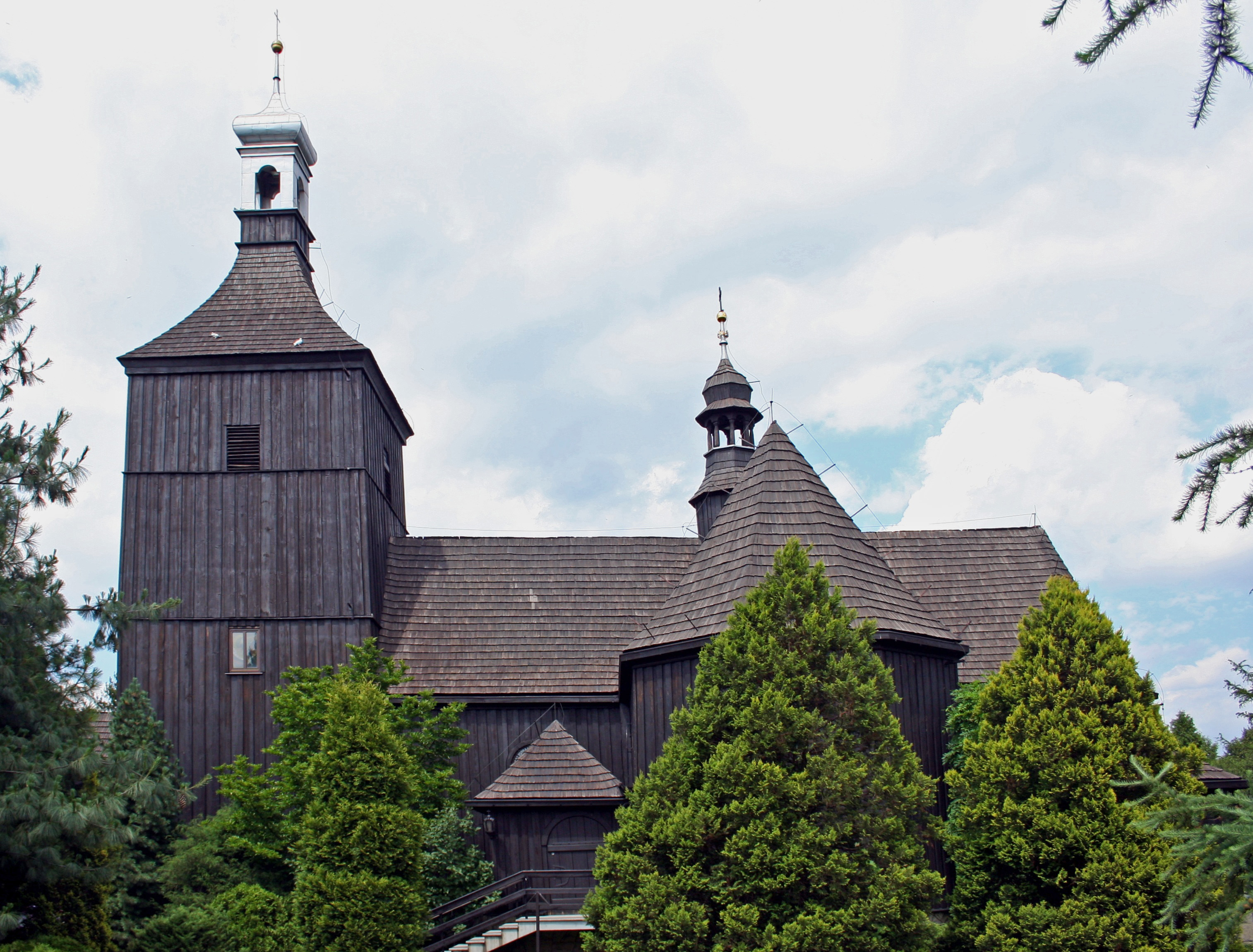 church of st. Wawrzyniec in Rybnik (Poland)